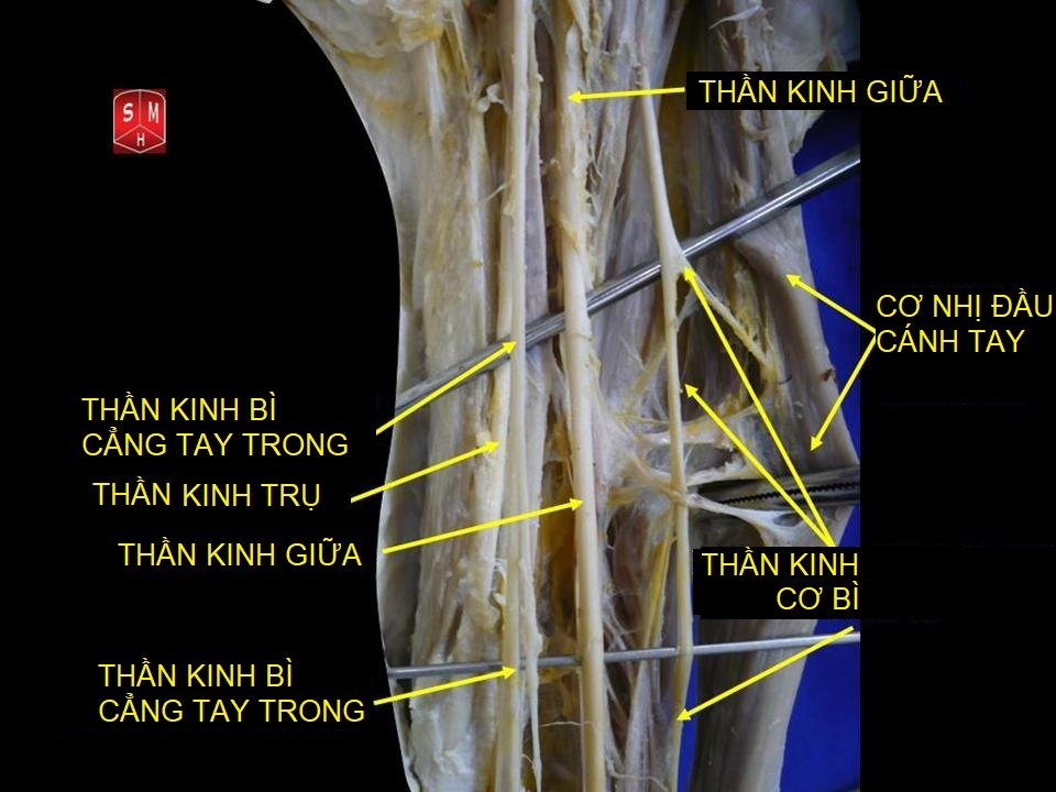 Dissection